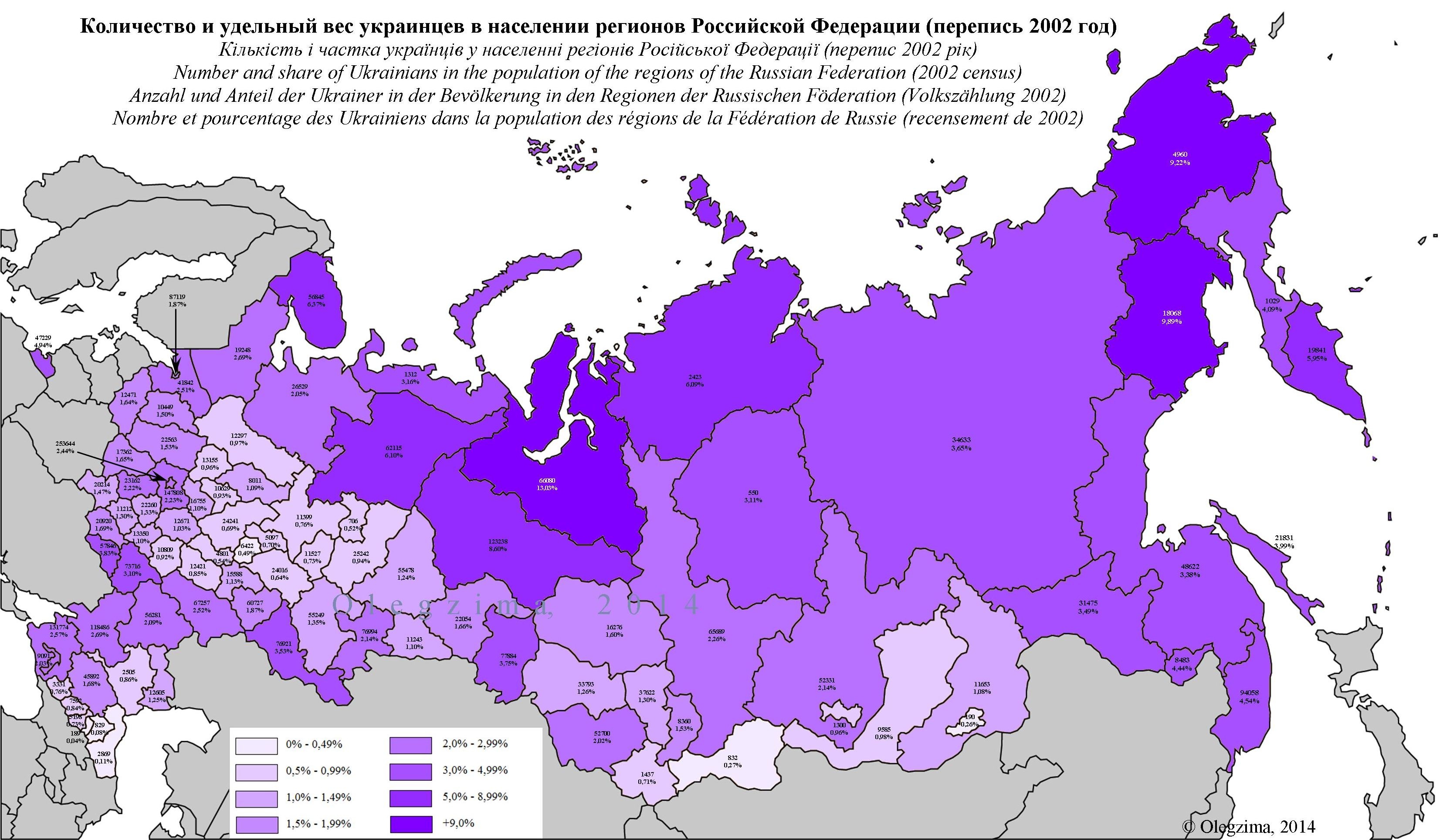 Number and share of Ukrainians in the population of the regions of the Russian Federation (2002 census)